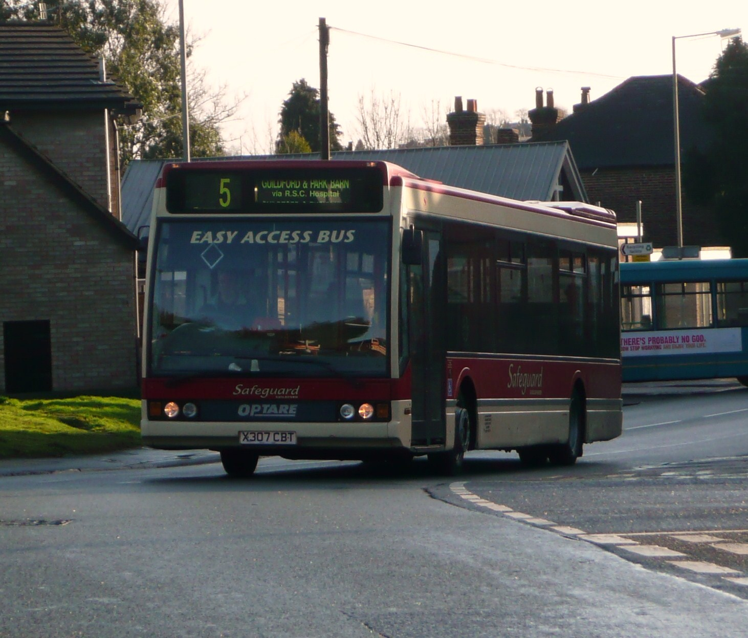 Safeguard Coaches' X307 CBT, an Optare Excel, in Guildford on route 5.